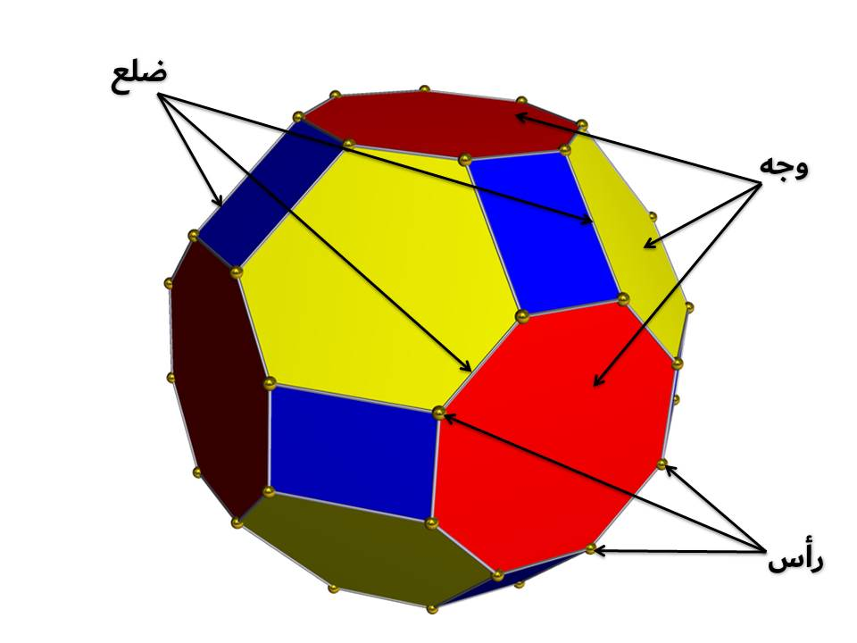 a polyhedron